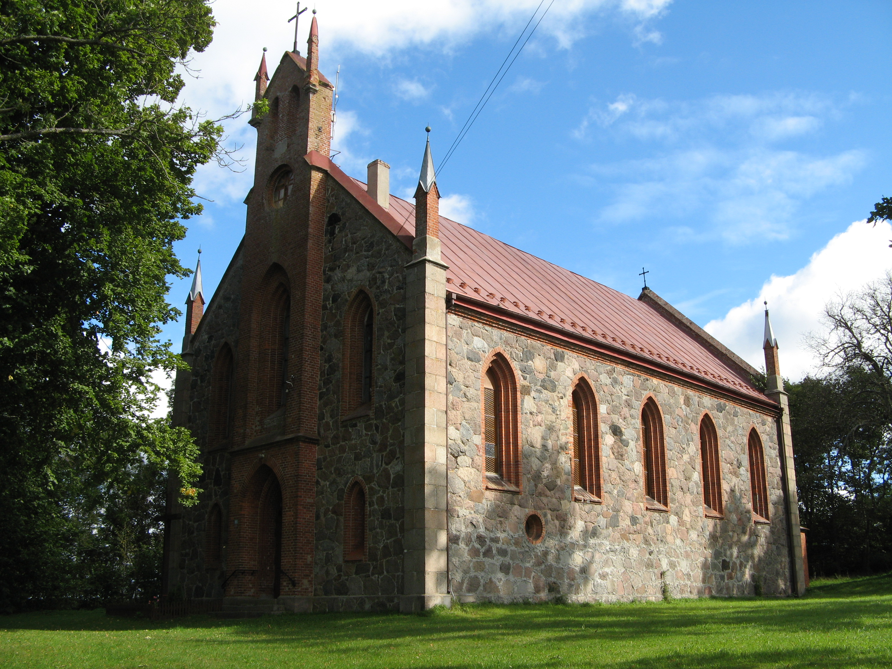 Church in Spore (before 1945 german Sparsee)